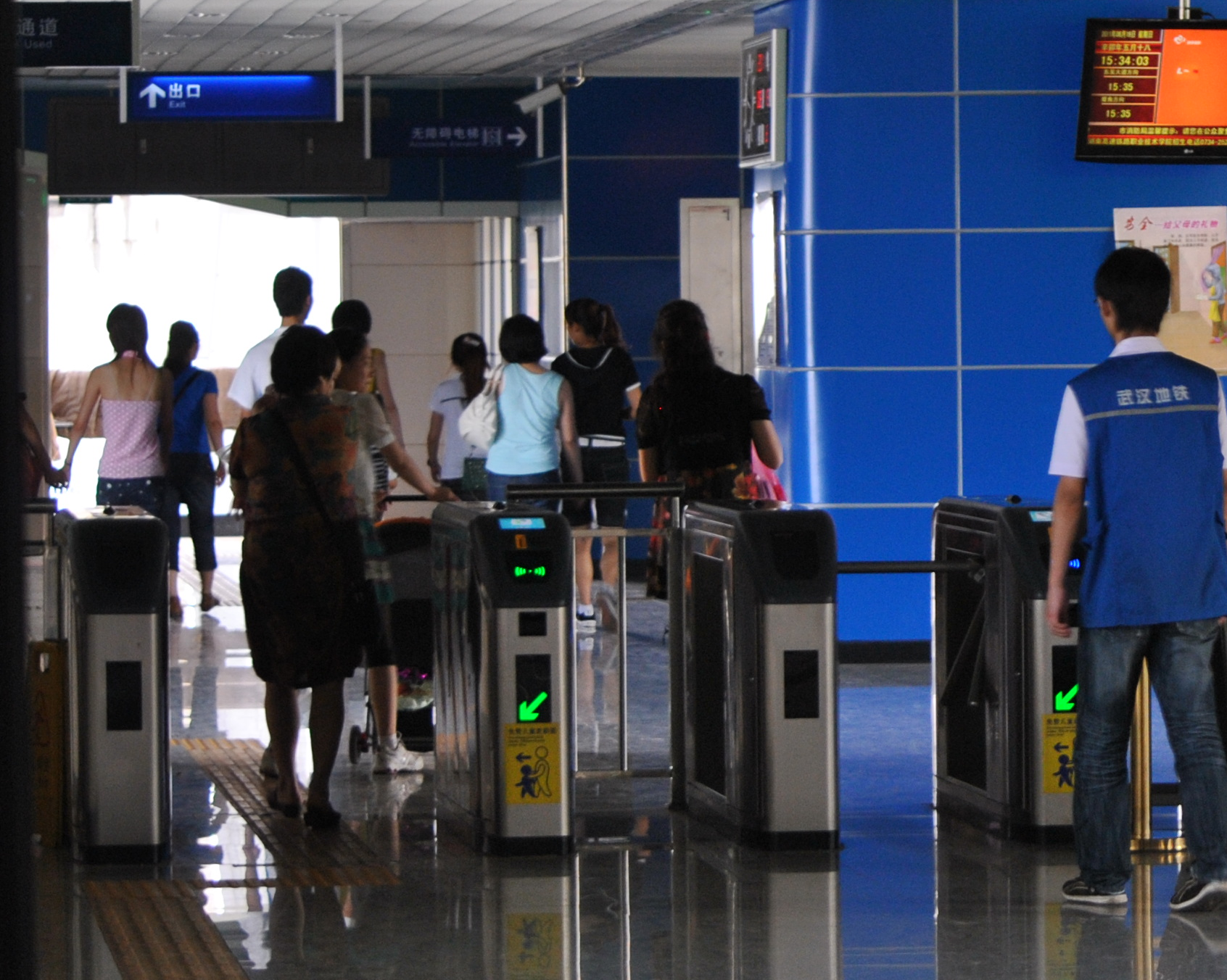 A turnstile at a Wuhan Metro Station